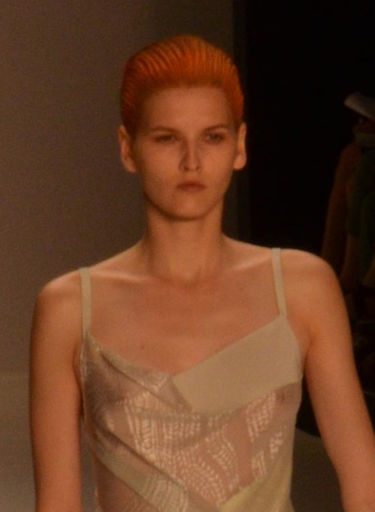 Kätlin Aas in the SS2012 Narciso Rodriguez fashion show